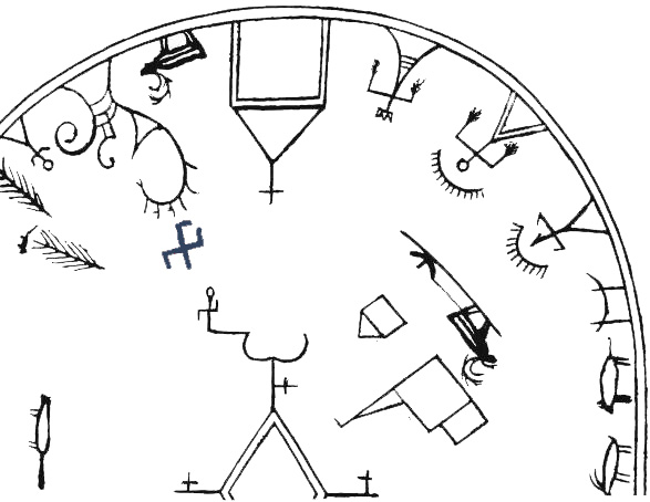 The thunder god Thor, Tiermes or Horagalles depicted on a shaman drum from Porsanger, Western Finnmark in Norway in the last part of 1700eds by the christian missionary Knud Leem. The red is the two crossed hammers of Thor or (T)horagalles according to J. A. Friis 1871. Read more in Saamiblog